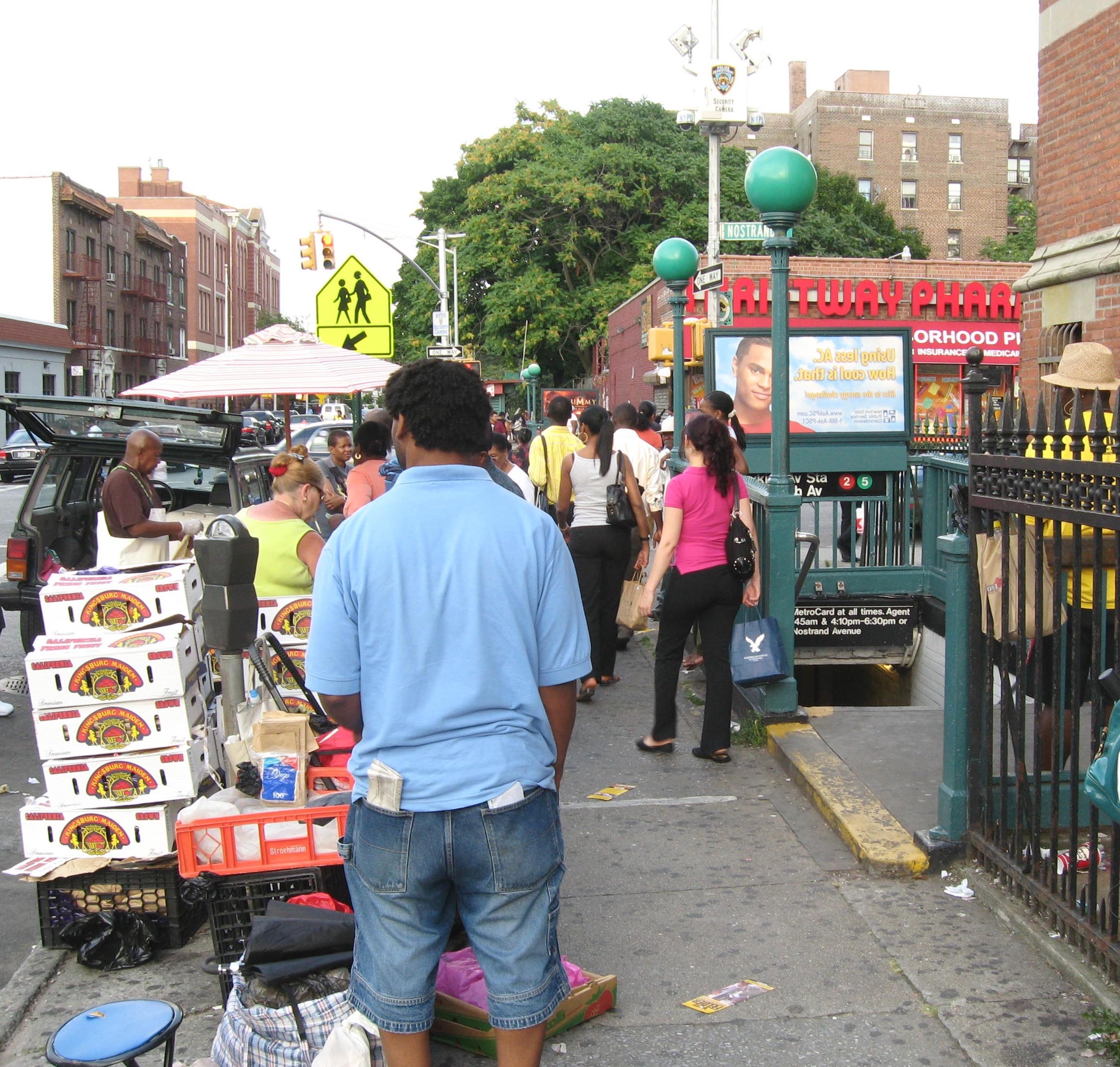 Looking east late on a cloudy afternoon at Newkirk Avenue (IRT Nostrand Avenue Line)